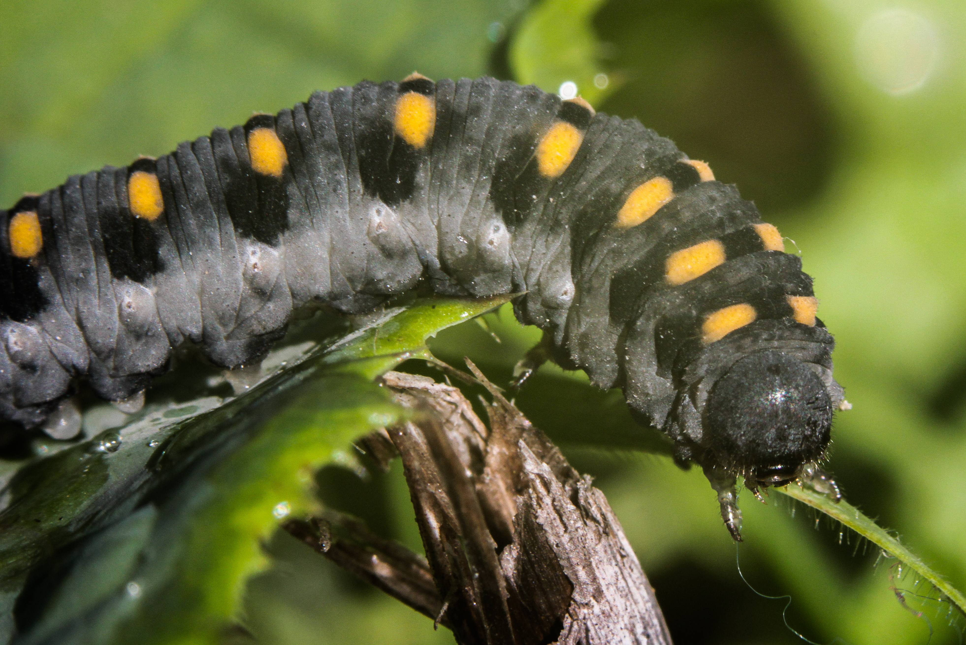 Larvae of Abia sericea from Sardinia, Italy